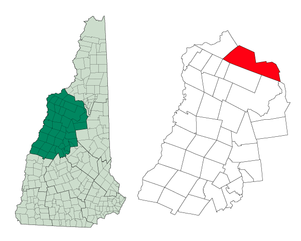 Map of a municipality in Belknap County, New Hampshire